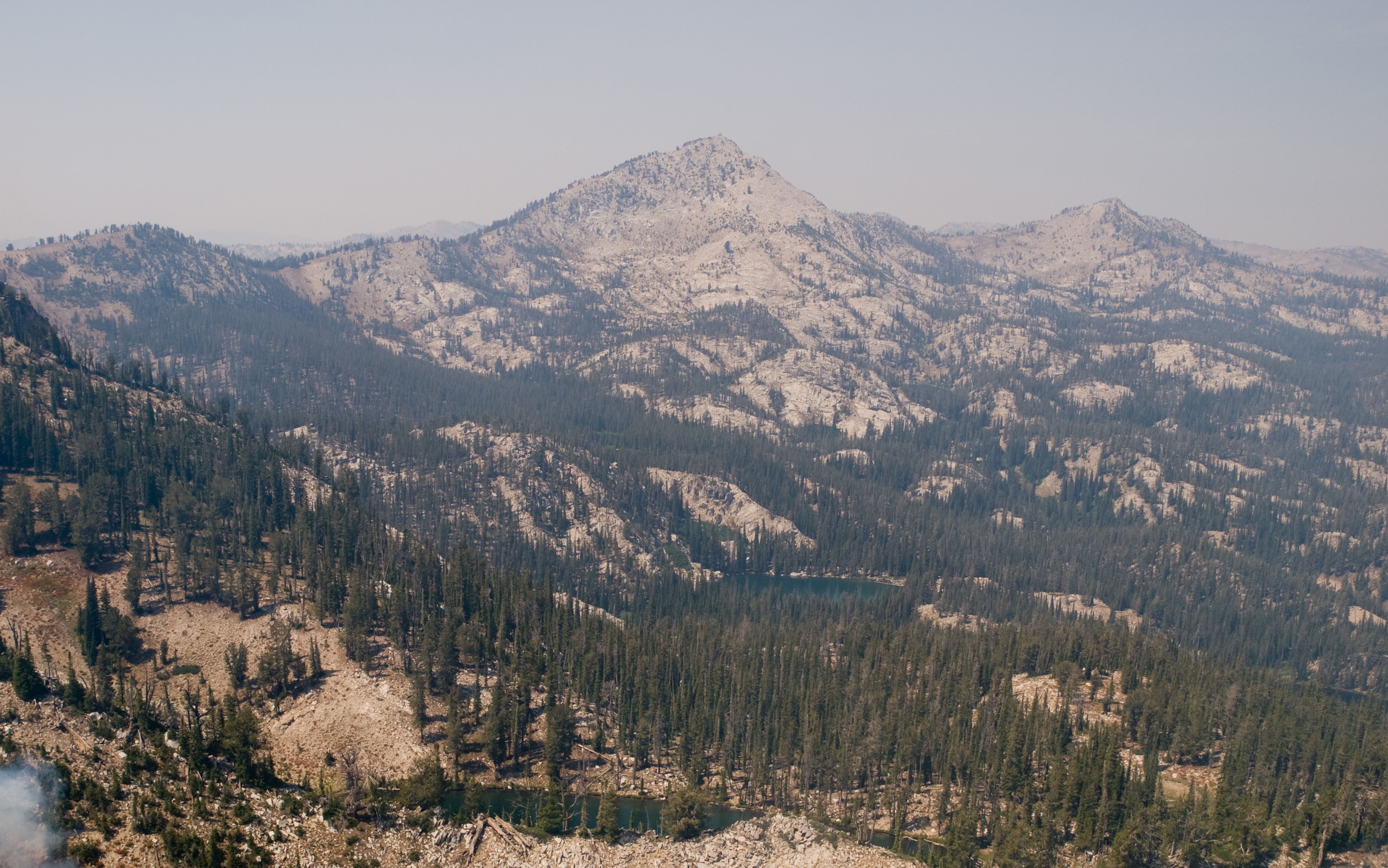 Trinity Peak and the Rainbow Lakes area of Boise National Forest Idaho with the Elk Complex Fire in the lower left corner.